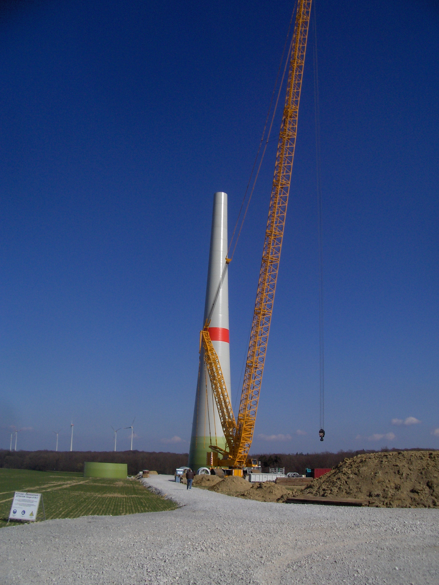 Construction site of wind-farm Wewelsburg, North Rhine-Westphalia, Germany